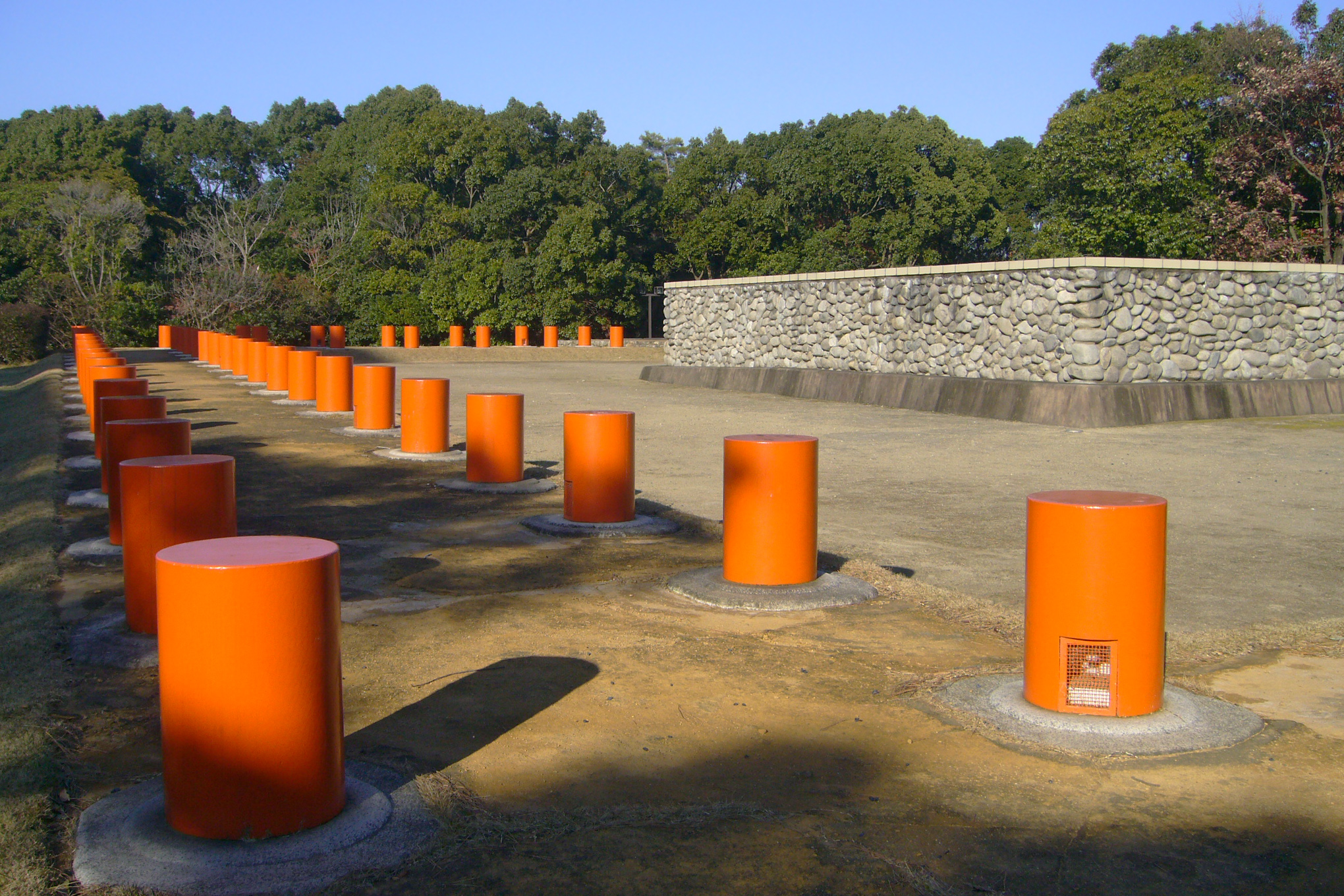 Ruins in Kaie-ji Temple, Sennan, Osaka prefecture, Japan